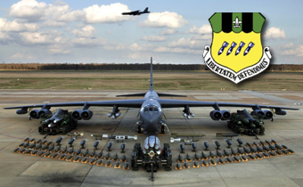 B-52H bomber of the 2d Bomb Wing at Barksdale AFB, Louisiana showing the ordiance it's capable of carrying.(U.S. Air Force photo by Tech. Sgt. Robert J Horstman)